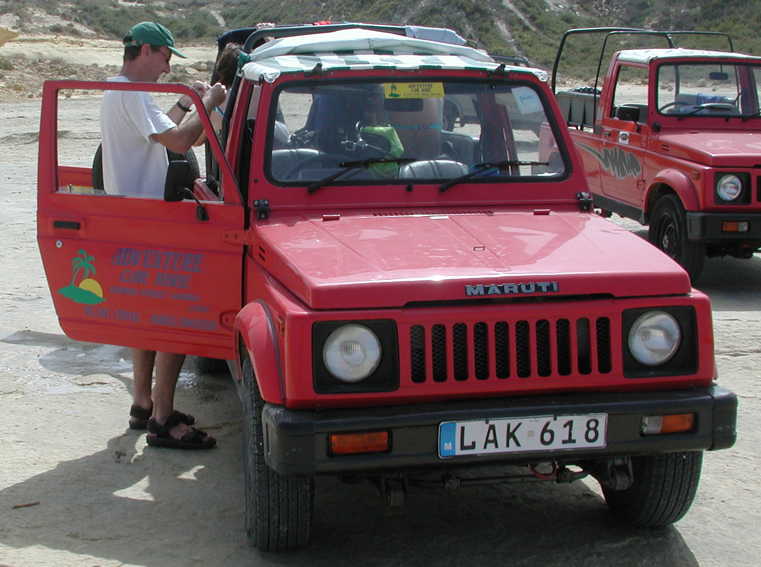 This photograph of a Maruti Gypsy vehicle was taken by Tim Rogers on 23 September 2001 in Gozo, Malta. He agrees to licence it under the terms of the GNU Free Documentation License.